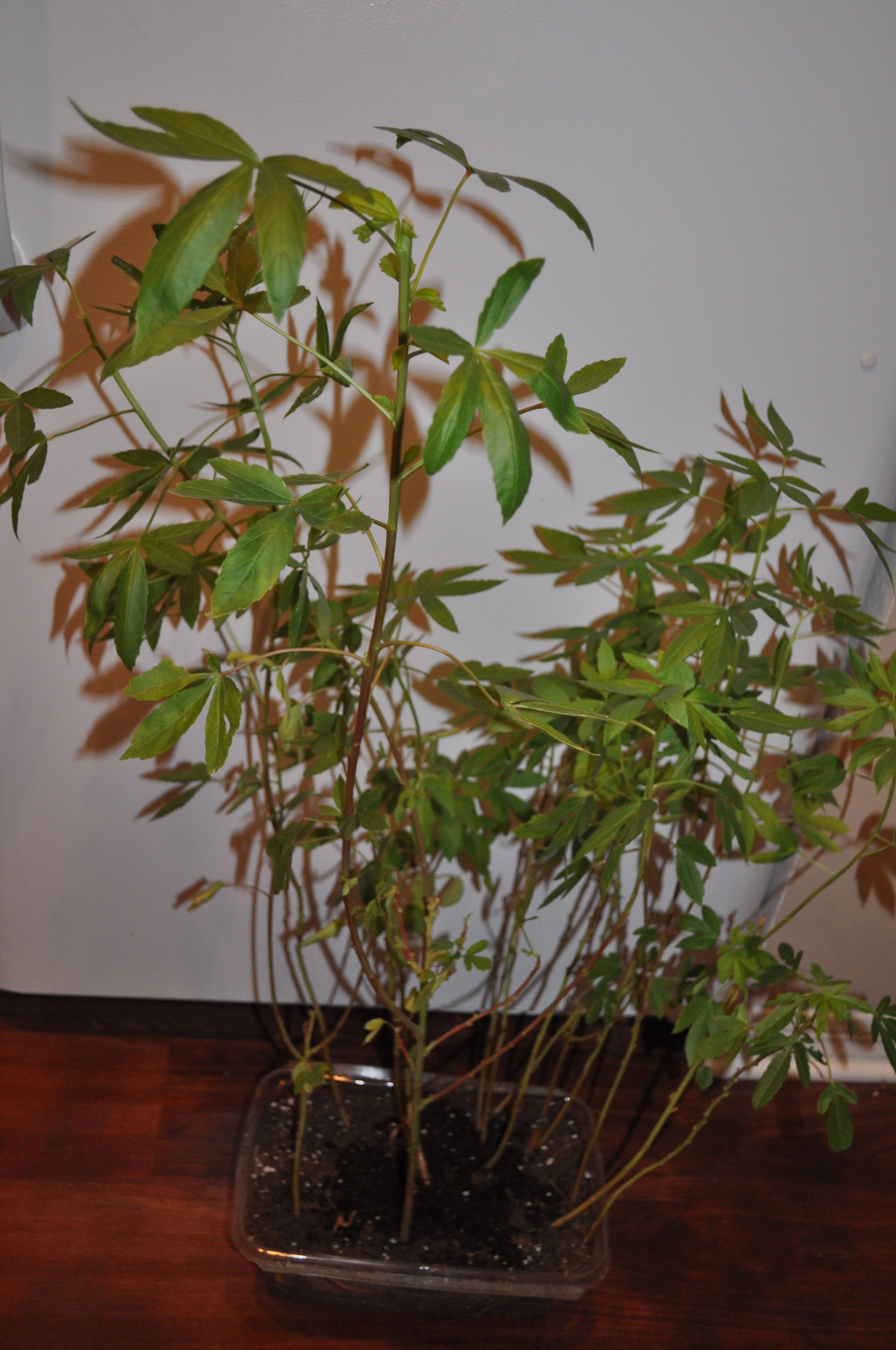 Kenaf Plants many